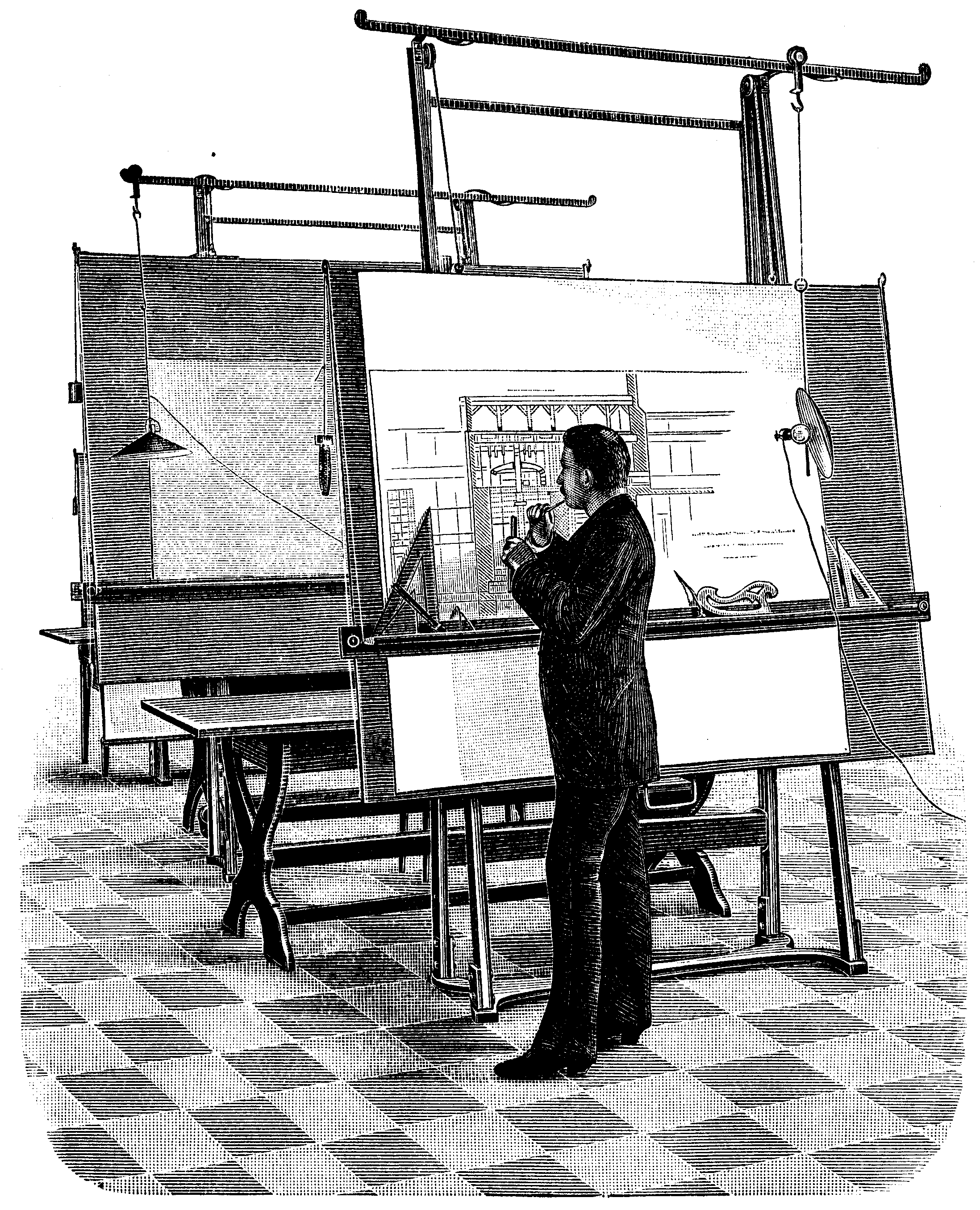 Architect at his drawing board. This wood engraving was published on May 25, 1893, in Teknisk Ukeblad, Norway's leading engineering journal. It illustrates an article about a new kind of upright drawing board delivered by the firm J. M. Voith in Heidenheim a. d. Brenz (in south Germany). The board measures 1800 x 1250 mm, the total height is 2800 mm, and the weight 220 kg.